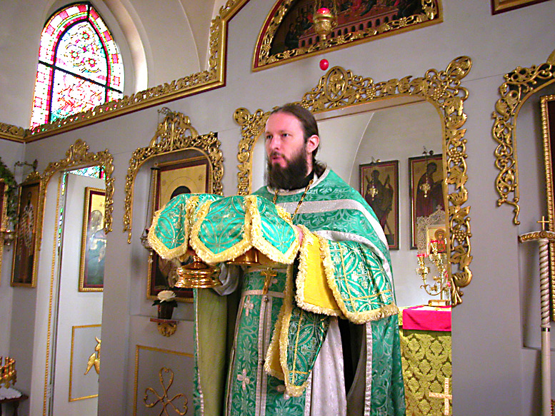 Divine Liturgy at Holy Protection Church in Düsseldorf